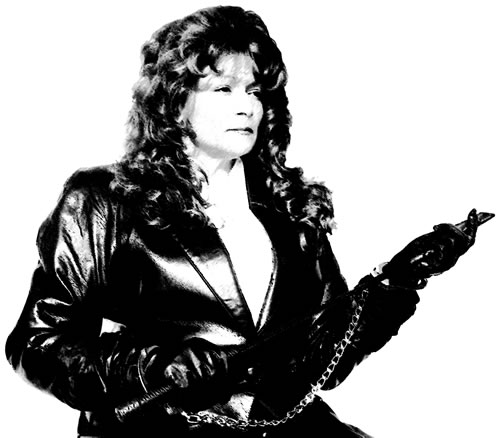 Terri-Jean Bedford self-published memoirs "Dominatrix on Trial"